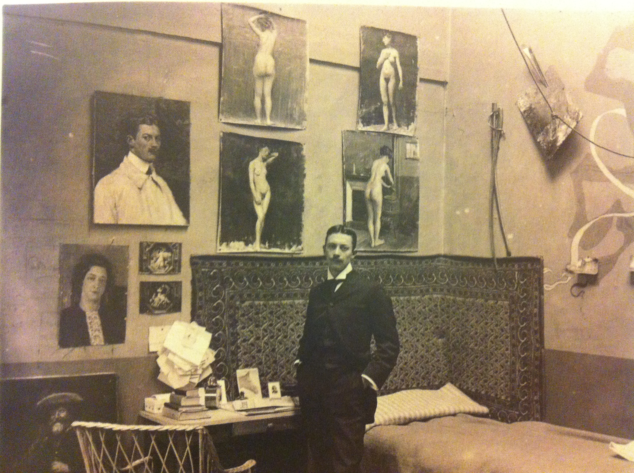 Photograph representing the Swedish artist Jonas Åkesson (1879-1970) in his art studio in Paris, about 1905.